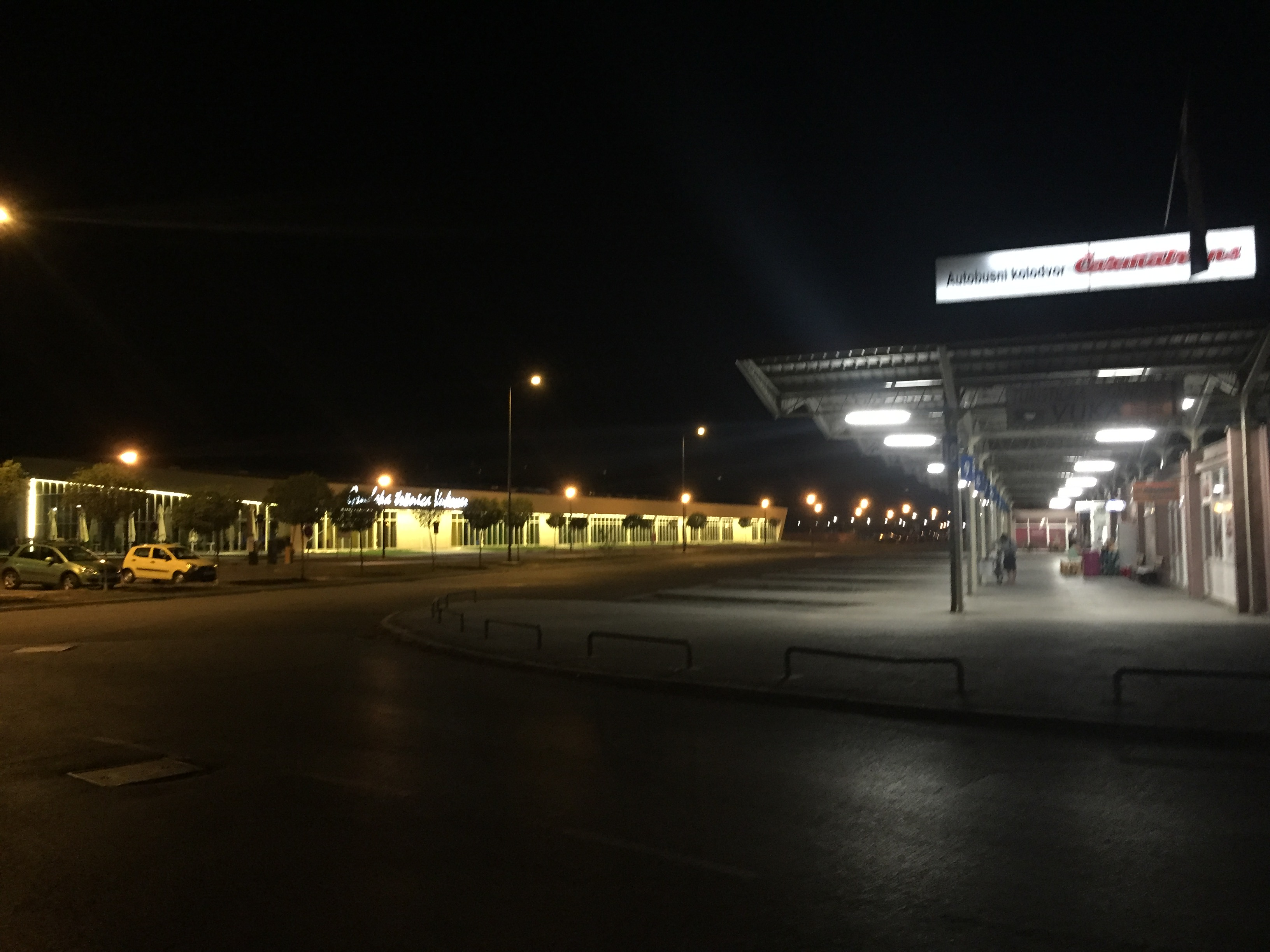 Vukovar Bus station, August 22nd 2019